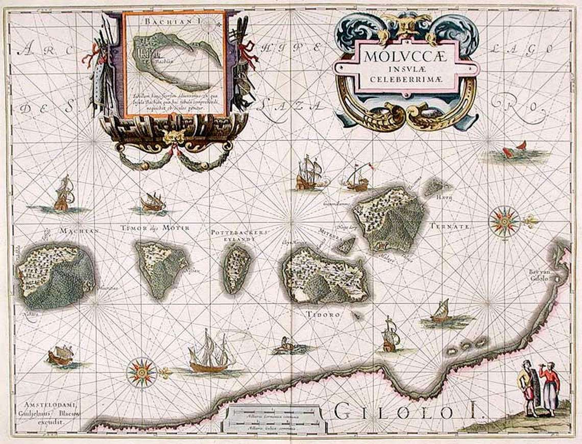 "Moluccæ Insulæ Celeberrimæ". Blaeu's map, which first appeared in 1630 in the Atlantis Appendix., was the first large-scale, detailed map of the now Dutch-controlled islands. It shows the heavily forested nature of the islands and the recently constructed forts. North is on the right direction, with Ternate in the rightmost island followed by Tidore, Mare, Moti and Makian islands. The bottom is the Gilolo (Jailolo or Halmahera) Island. Inset on the top is Bacan Island.